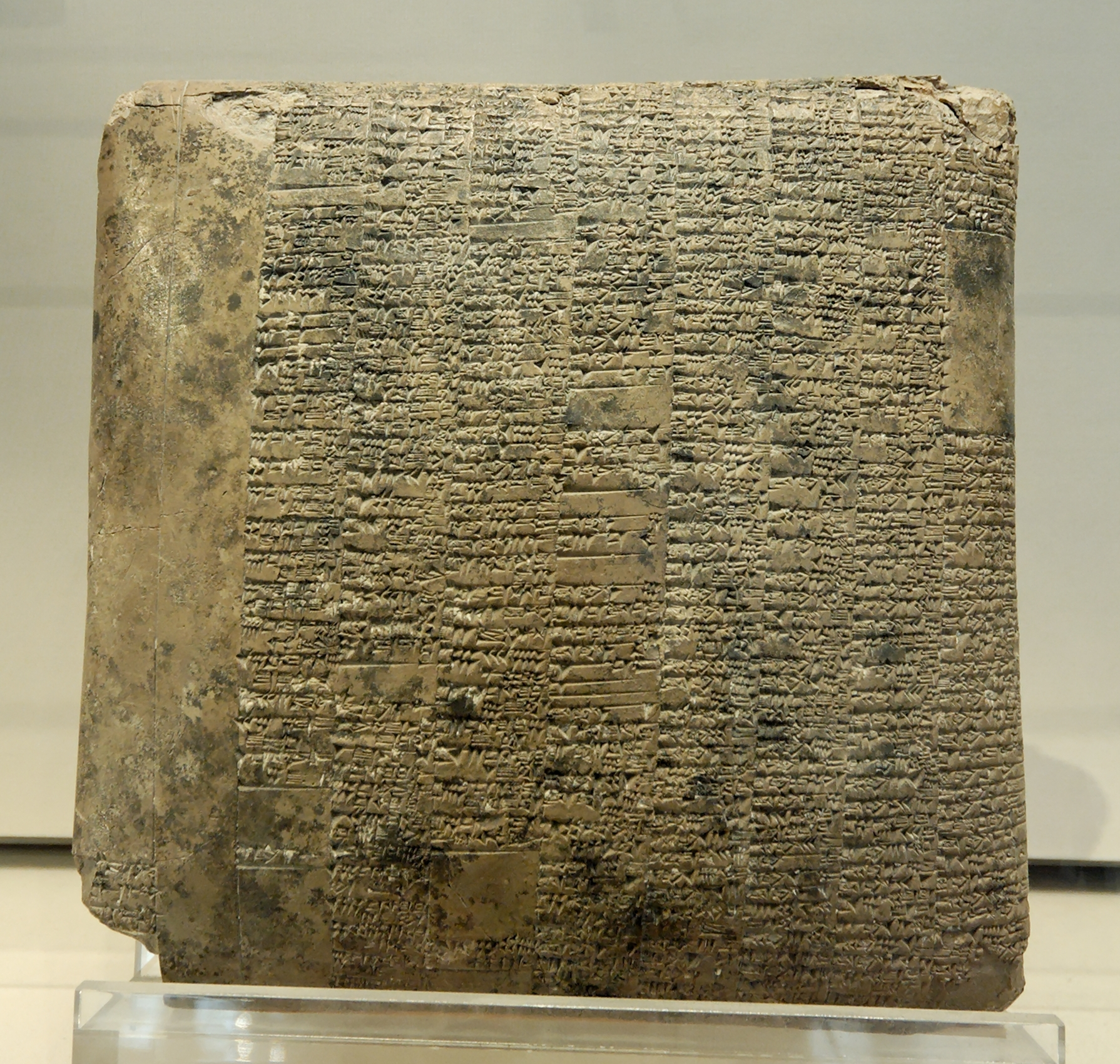 Annual balance sheet of a State-owned farm, drawn-up by the scribe responsible for artisans: detailed account of raw materials and workdays for a basketry workshop. Clay, ca. 2040 BC (Ur III).